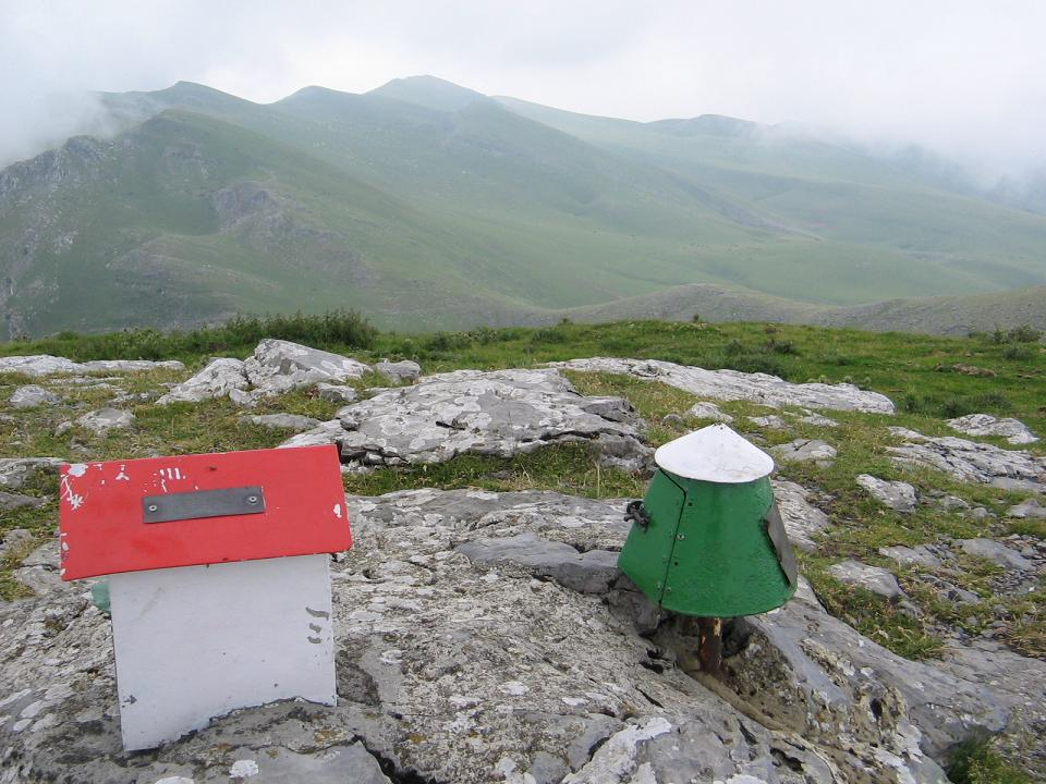 Summit of Ganboa on the Aralar Massif with mount Uarrain and the Alotza fields in the background.